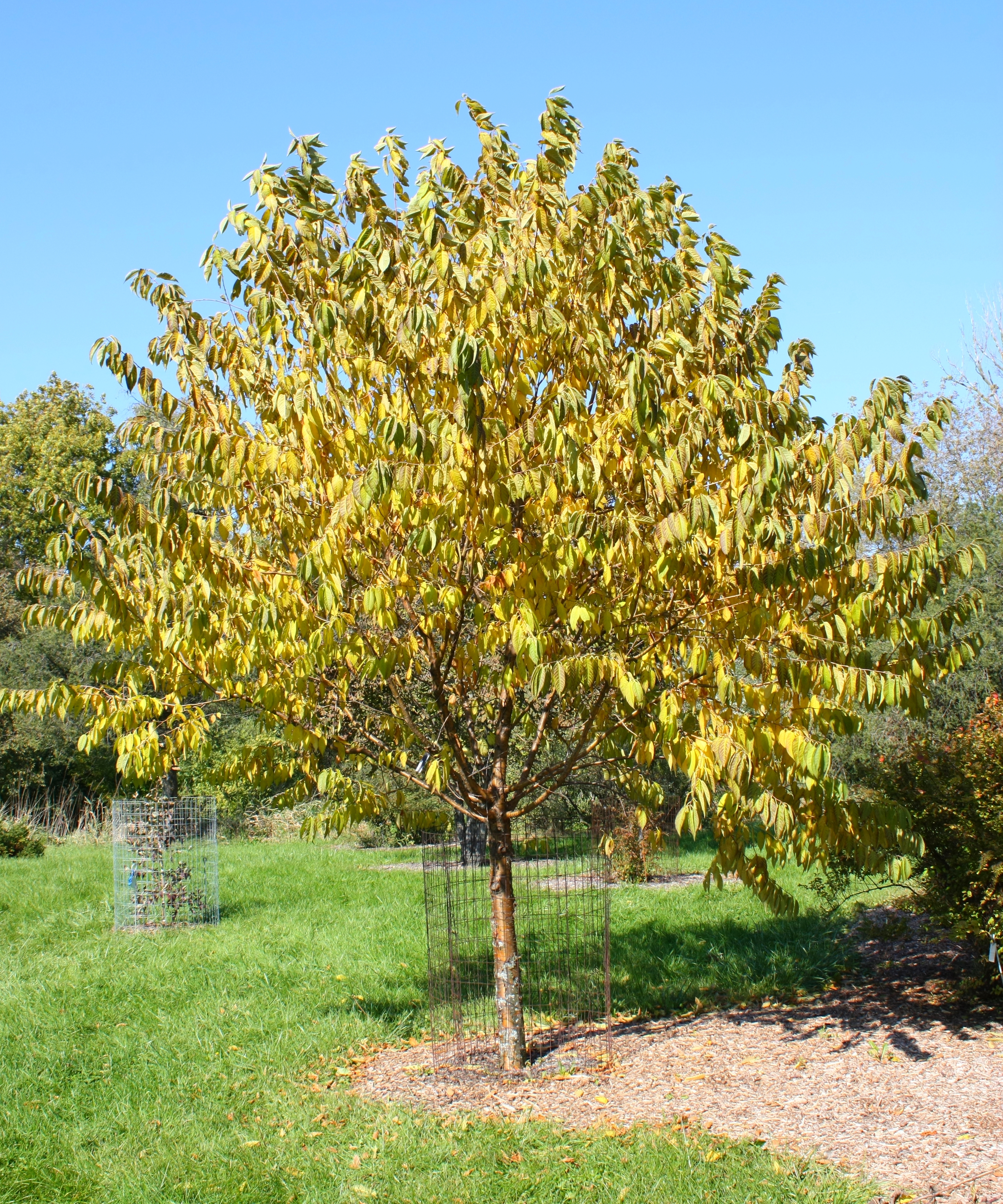 Miyama Cherry - Prunus maximowiczii, Morton Arboretum acc. 35-2000*3 photographed October 19th, 2009 by Bruce Marlin